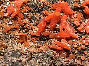 Photograph of a wulfenite specimen from the Red Cloud Mine, La Paz County, Arizona, USA taken by Dlloyd. Thin bright orange-red bevel-edged tabular wulfenite crystals measuring up to 1 cm (0.4") across.